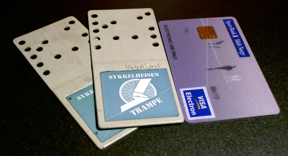 Keycards for use on the Bicycle lift Trampe (Sykkelheisen Trampe in Norwegian). A Visa card is shown for size comparison. Sensitive numbers on the Visa card have been obscured. Taken and released into the public domain